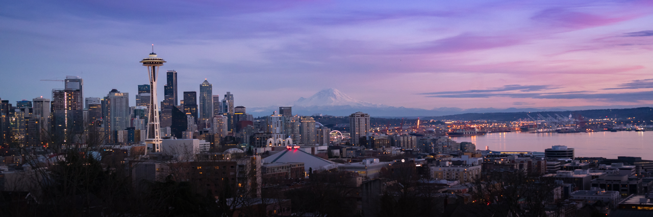 Kerry Park, Queen Anne, Seattle, WA